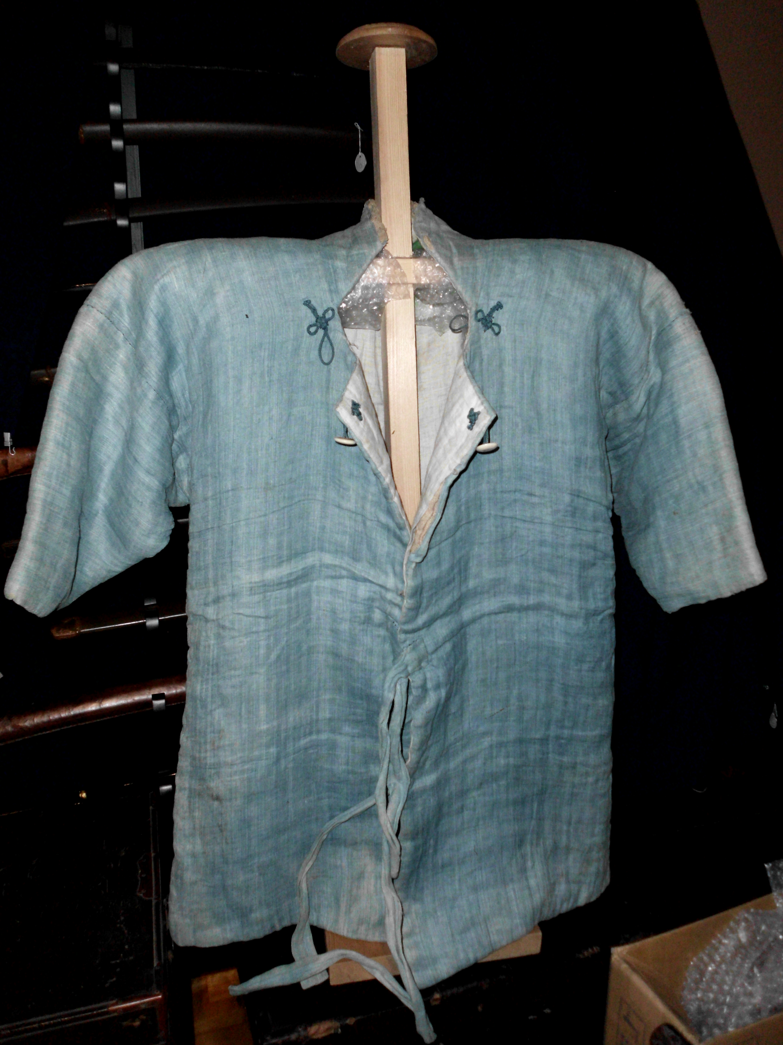 Antique Japanese (samurai) Edo period kusari katabira.